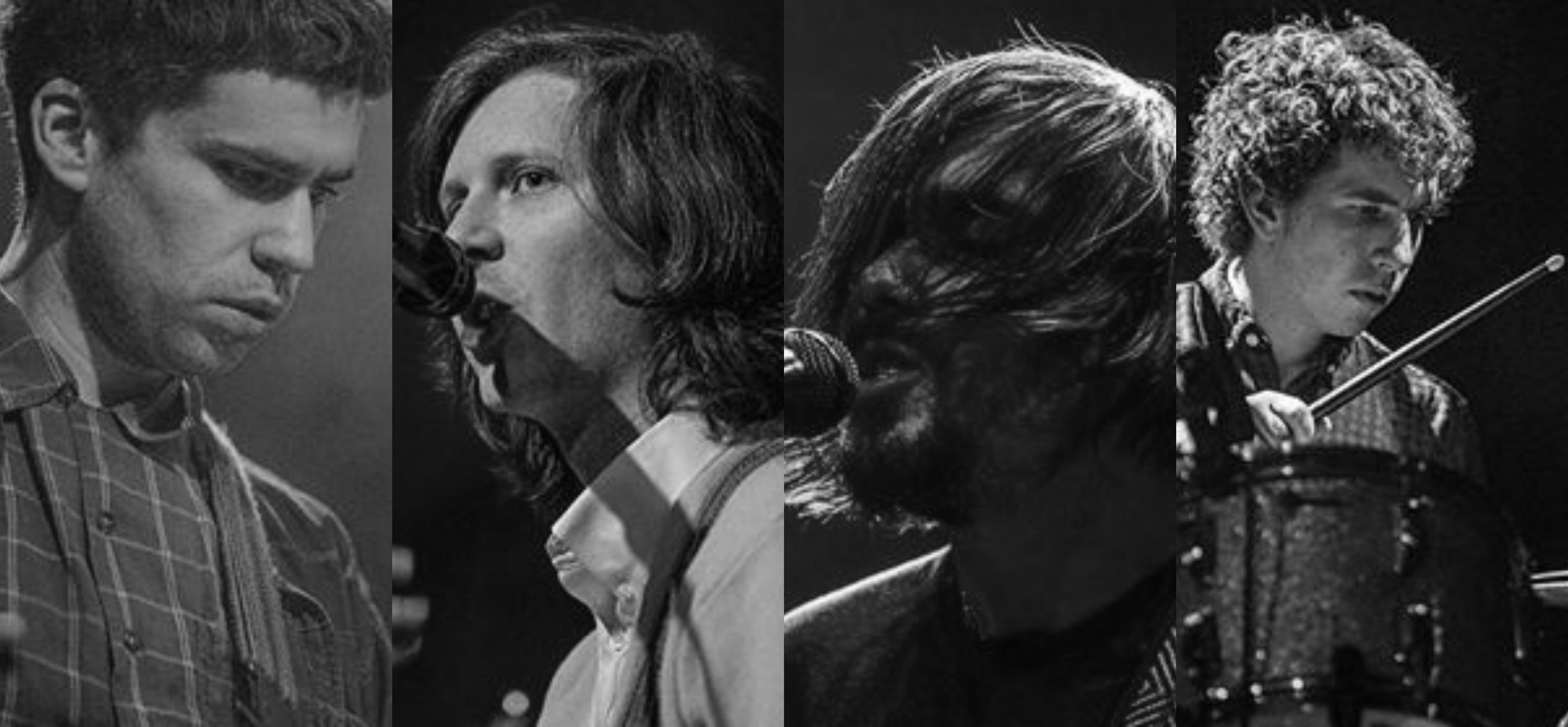 Parquet Courts performing at Thalia Hall in Chicago on February 16, 2016